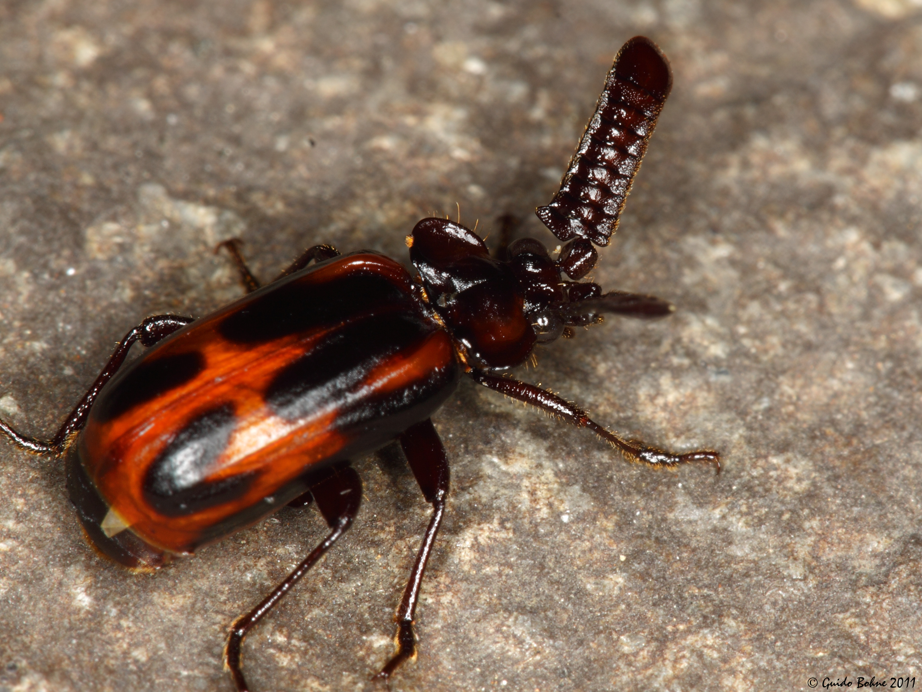 I never saw antennae like this... this "strange ground beetle" flew to the light bulb short after sun set. Short after ants were heavily attracted by the exudes of its antennae. Due to ignorance I interfered - pushing the approaching ants away - in order "to protect my model", if I'd only known that the ants were just costumers... L: ca. 15mm Heteropaussus hastatus WESTWOOD, 1850 ??? Genus: Heteropaussus THOMSON, 1860 ? Subtribe Heteropaussina JANSSENS, 1953 Tribe: Paussini LATREILLE, 1807 Subfamily: Paussinae LATREILLE, 1807 (Ant nest beetles, Fühlerkäfer) Family: Carabidae (ground beetles, Laufkäfer) Suborder: Adephaga Order: Coleoptera Indonesia, Bogor: vic. Cidahu: Mt. Salak (E-slope), 1150m asl., 22.04.2011 IMG_1028